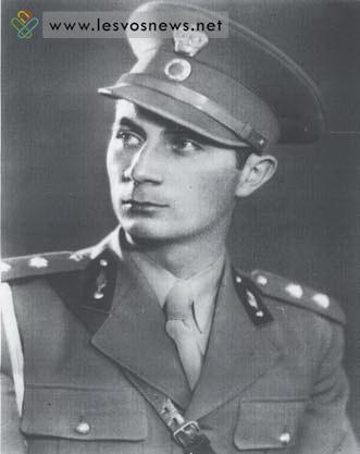 Greek officer Georgios Samaridis